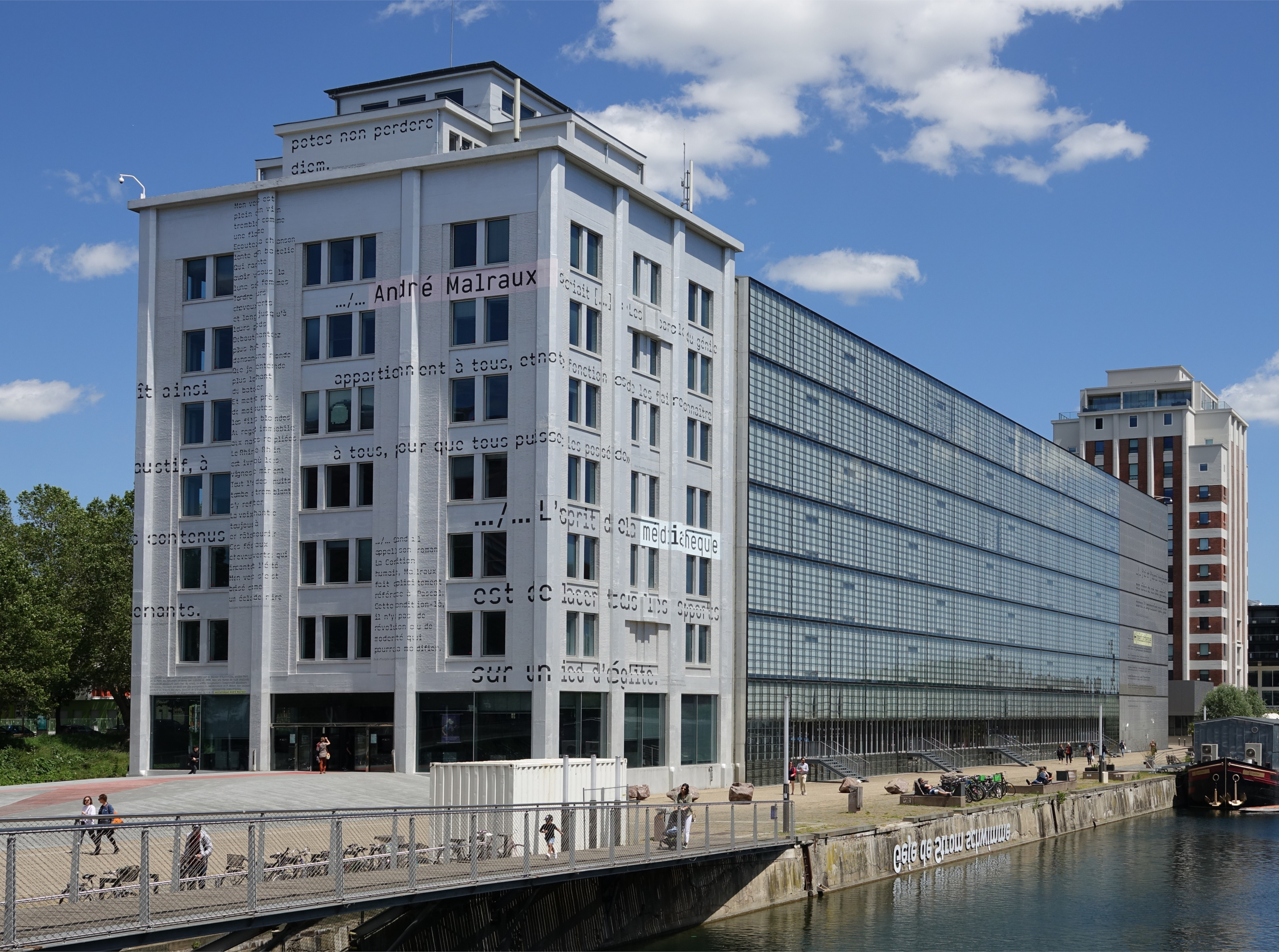 André Malraux media library in Strasbourg (Bas-Rhin, France).